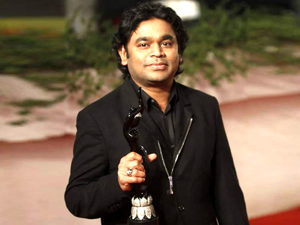 A.R.Rahman at 57th FF Awards with Award